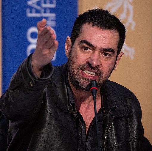 Sheen movie press conference at the 38th edition of the Fajr Film Festival at Mellat cineplex